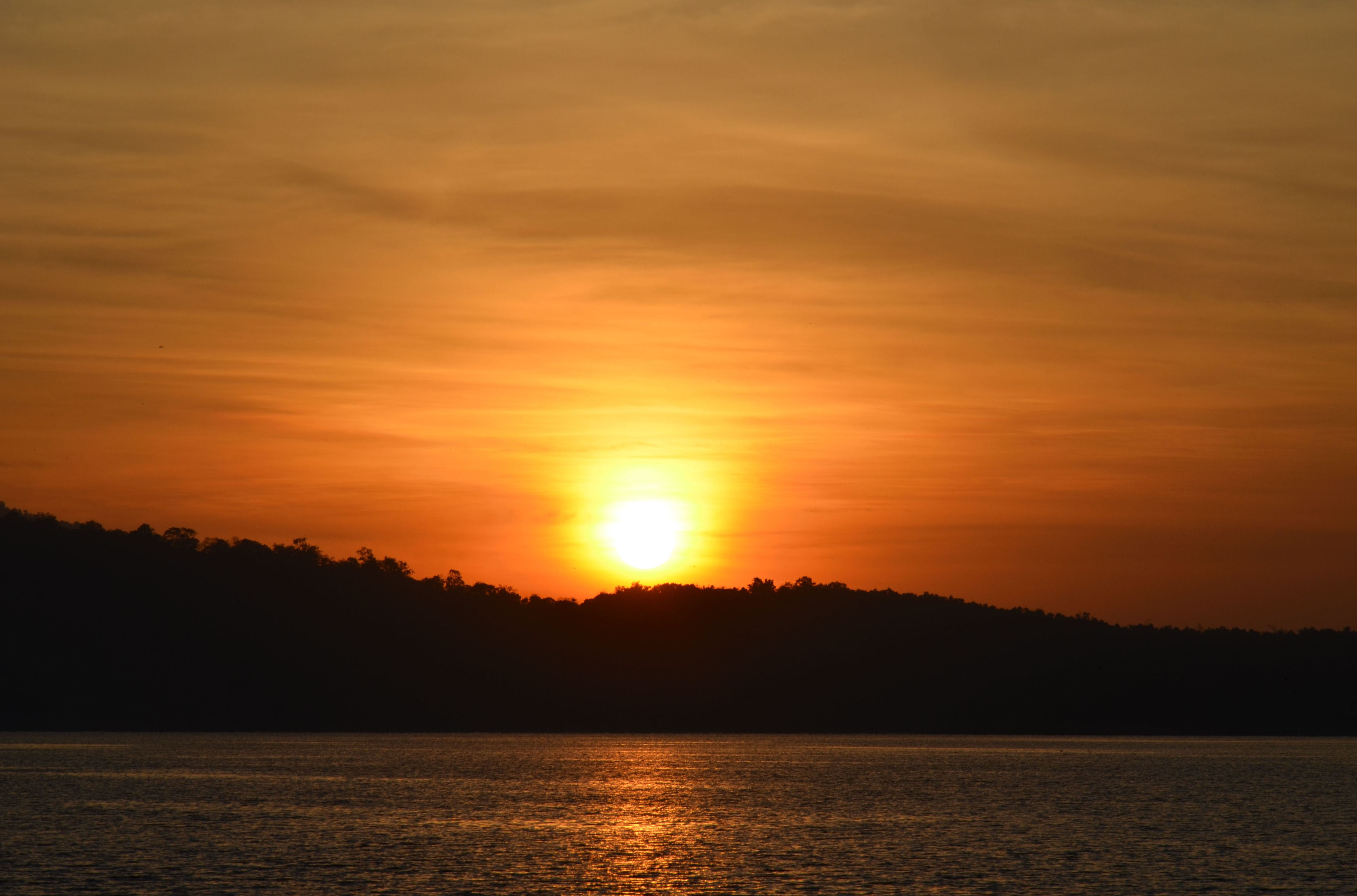 These pics were taken at Honnemaradu